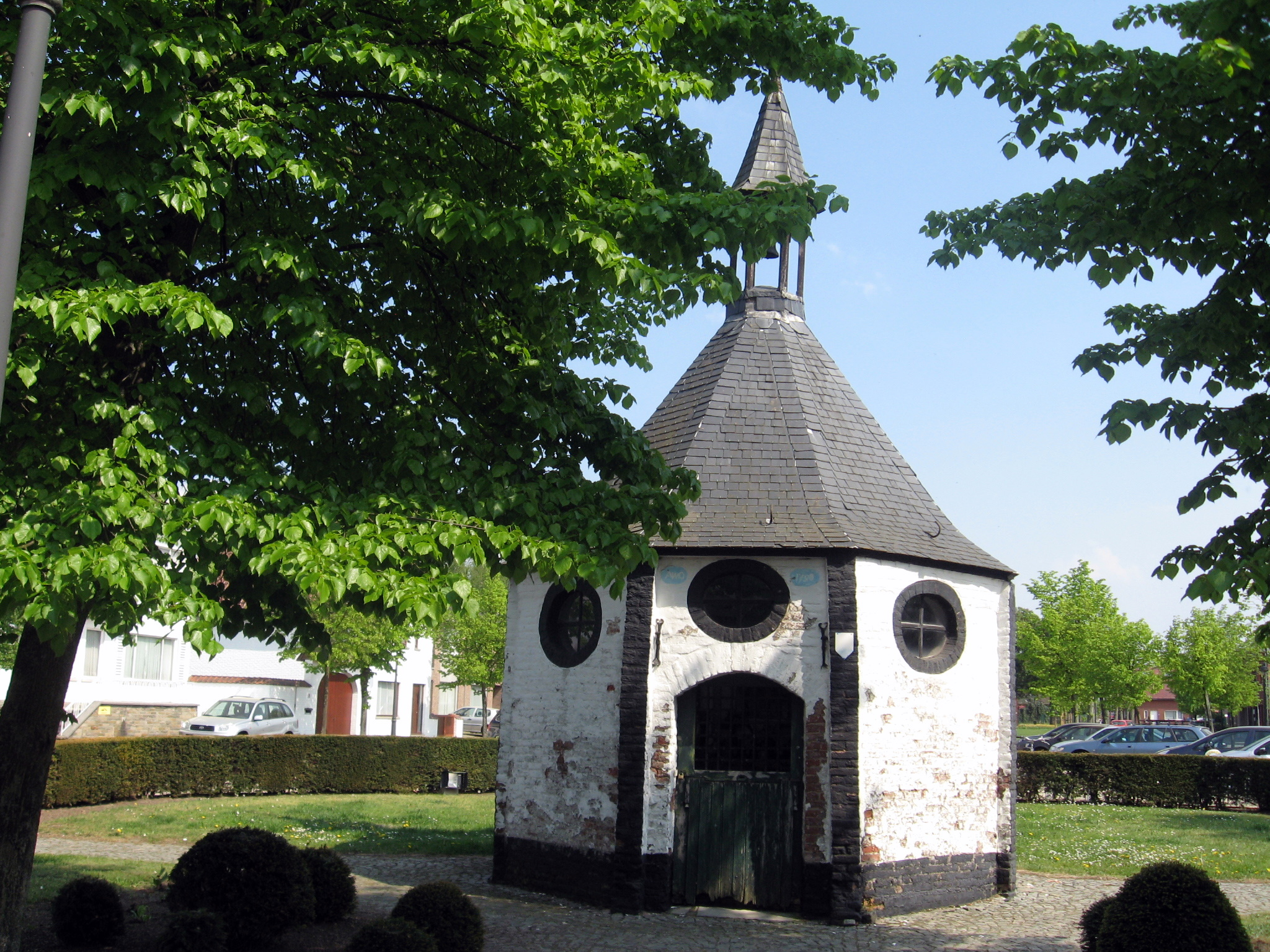 Chapel of Saint Mary at Kapelhof in Zonhoven, Limburg, België